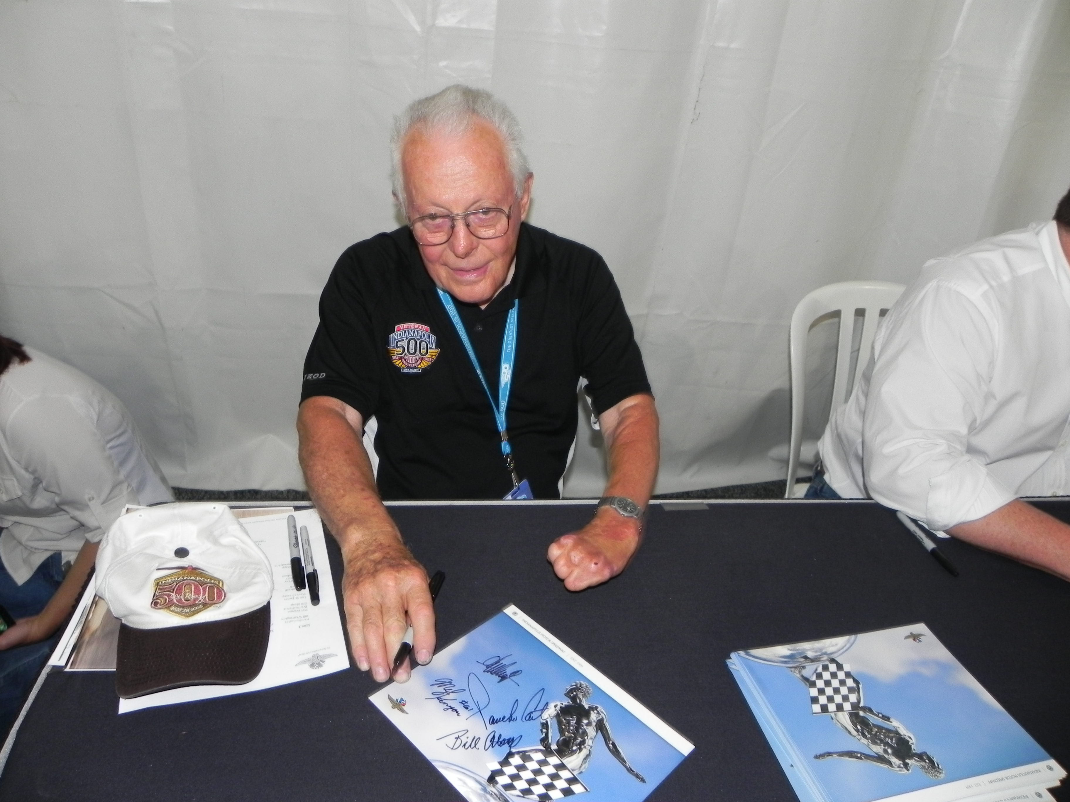 Indy driver Mel Kenyon at the 2012 Indianapolis 500 Legends Day